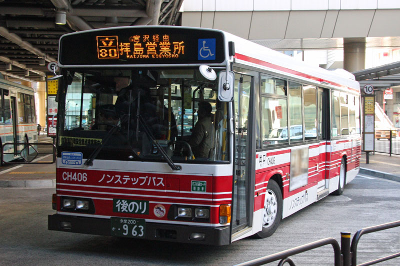 Tachikawa Bus's route bus (Car No.CH406 / Isuzu Erga-J PK-HR7JPAC / J-BUS body) at Tachikawa Station North Exit, Tachikawa, Tokyo, Japan